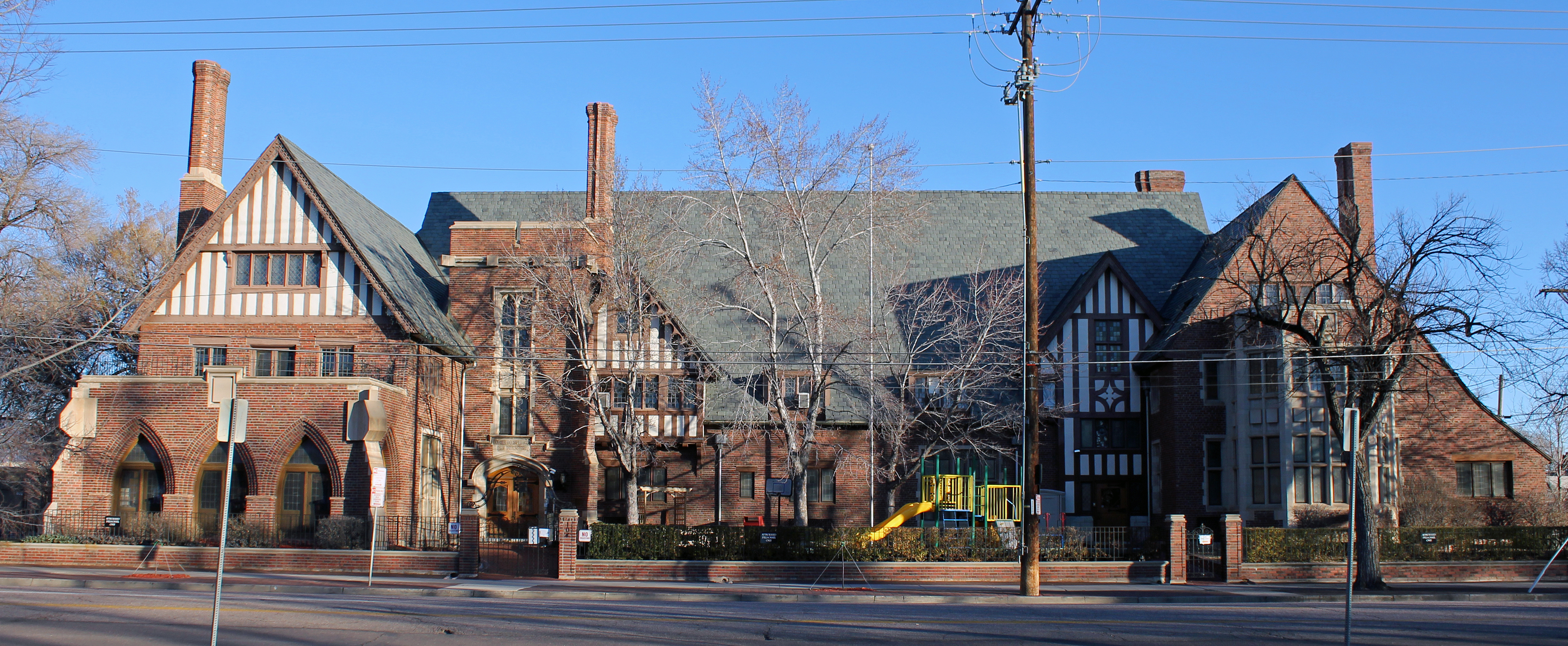 The Colorado Springs Day Nursery, located at 104 East Rio Grande Street in Colorado Springs, Colorado. The property is listed on the National Register of Historic Places.